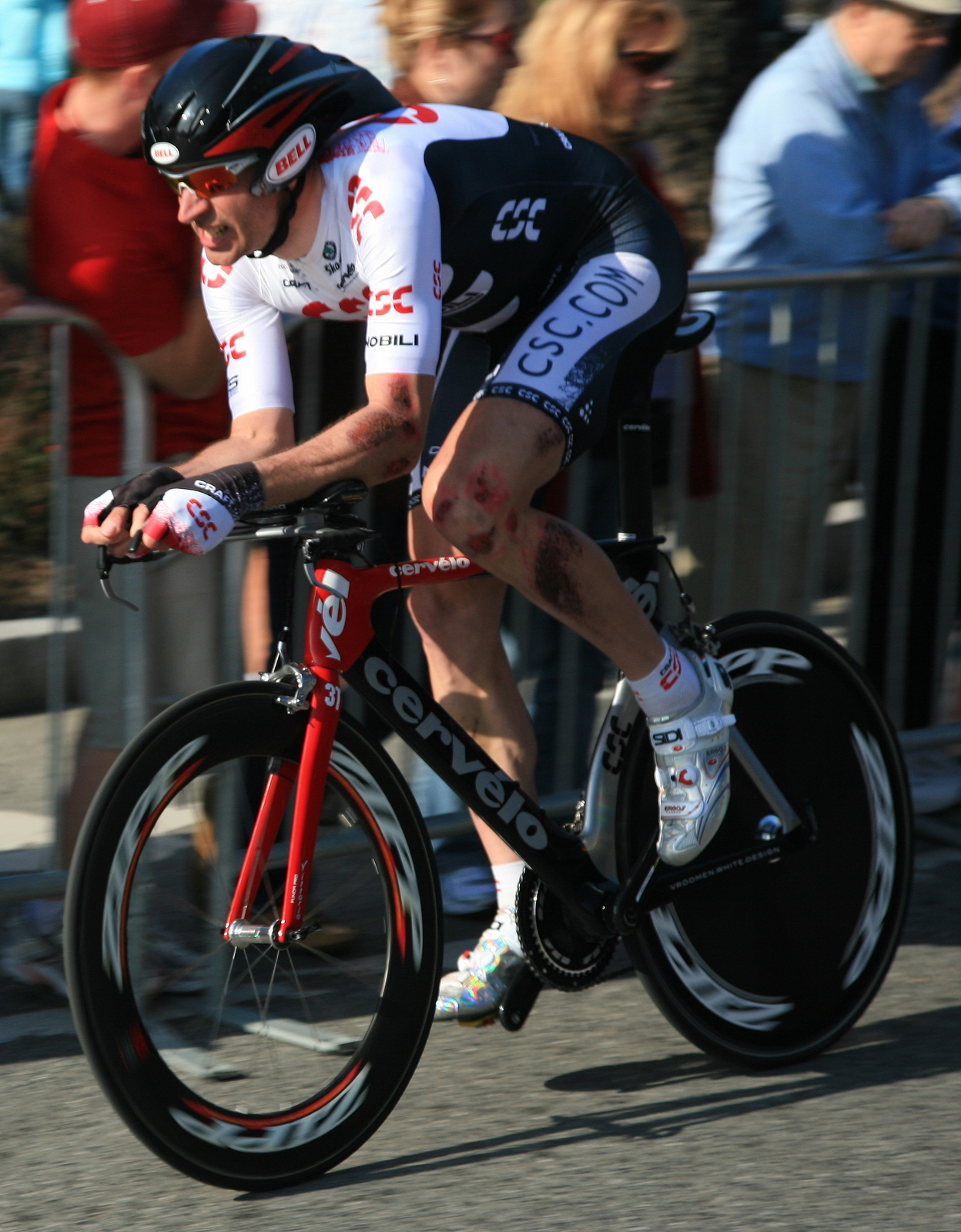 Jens Voigt at the Prologue of the Tour of California in Palo Alto